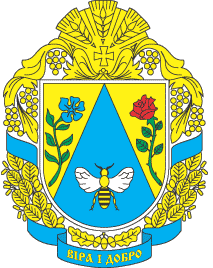 Coat of Arms Vilshanka Raion (Kirovograd Oblast Ukraine)